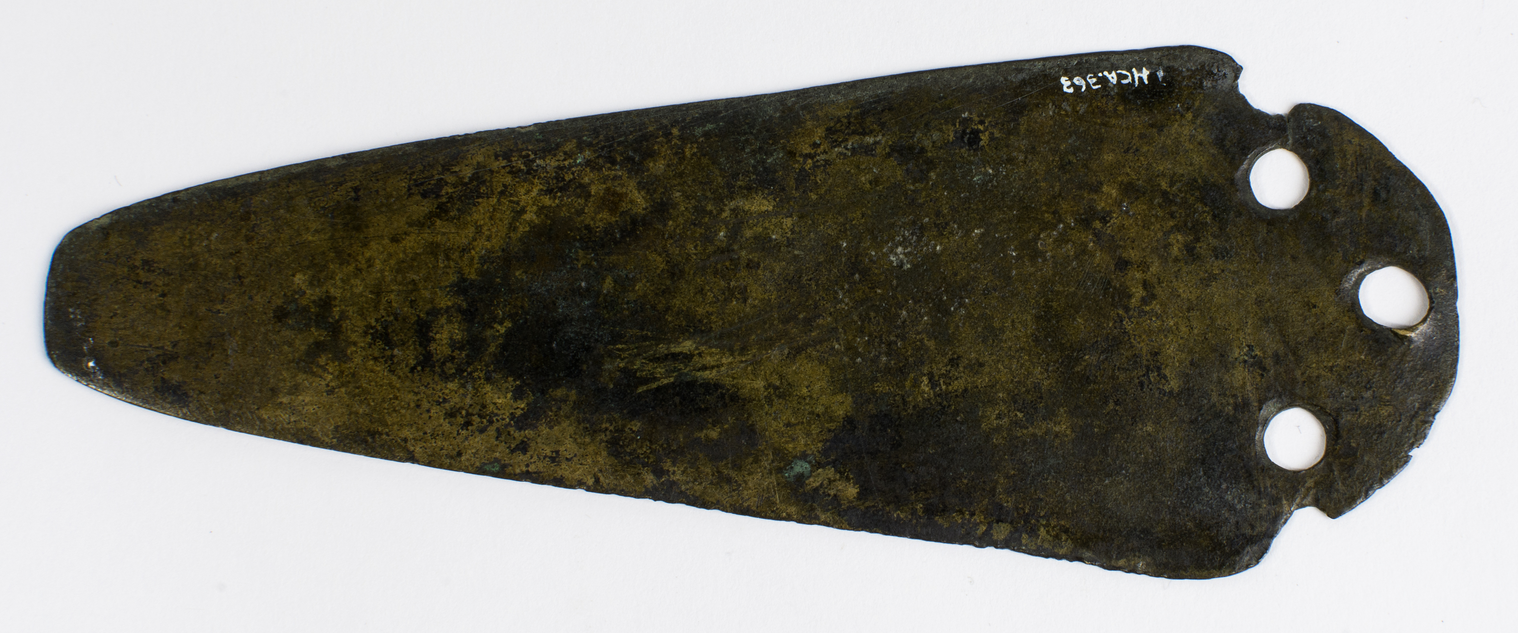 A flat bronze dagger with a tongue -shaped blade with a flattened top. It has a rounded butt with three rivet holes which would have been used to attach to a wooden base.